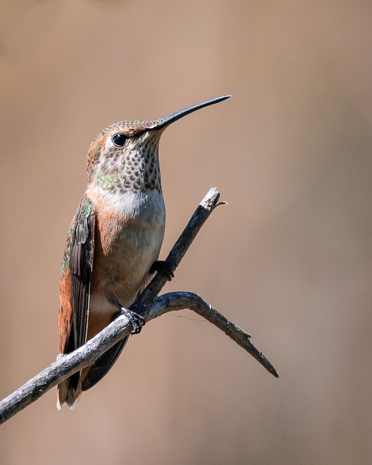 Sobrante Ridge Regional Preserve, Contra Costa County, California